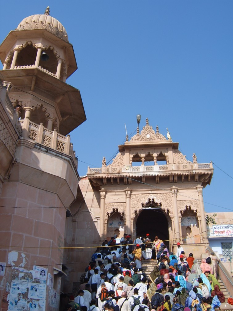 A temple dedicated to the worship of Radha and Krishna, in Varsana, India.